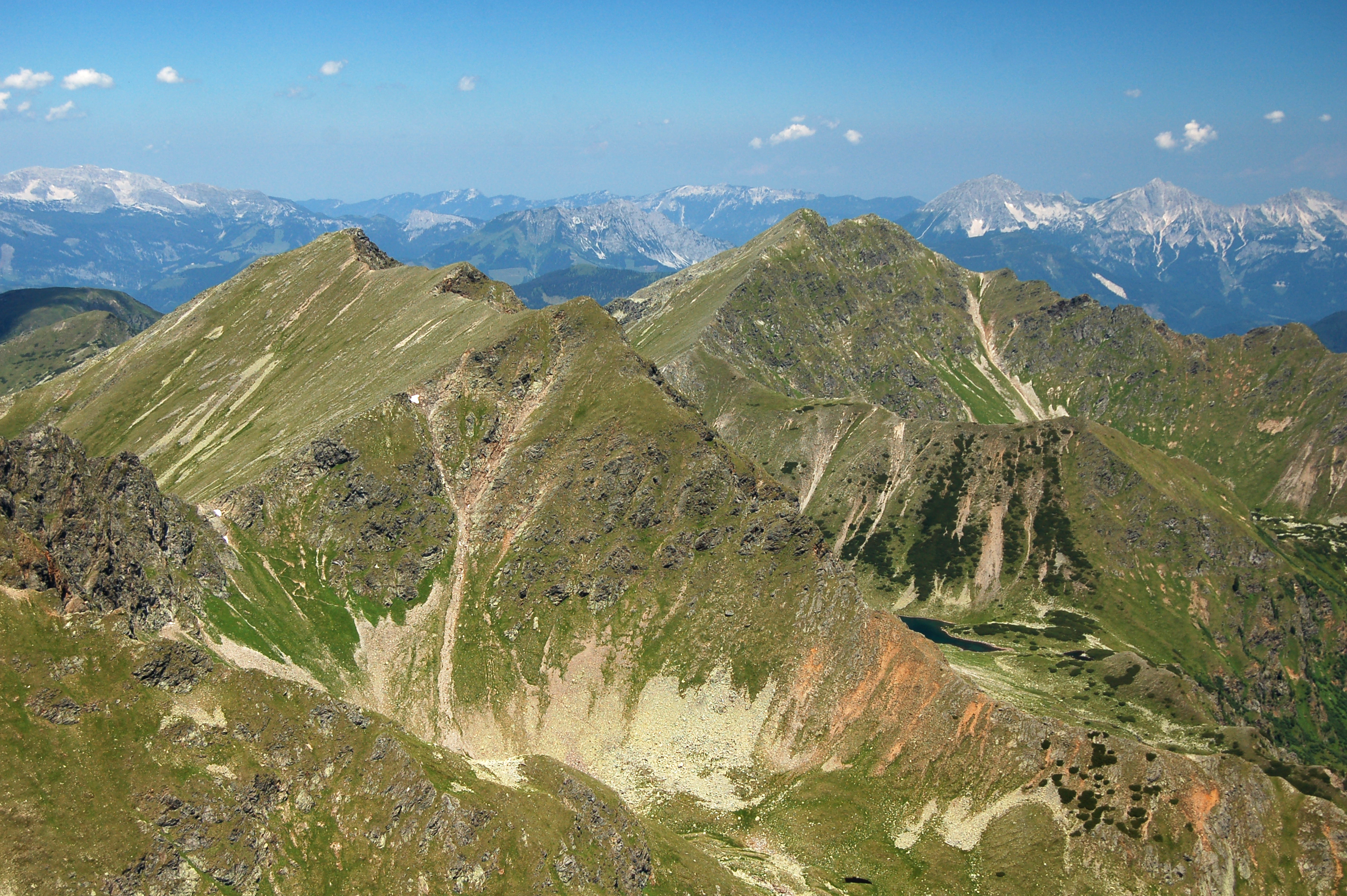 A view from the Großer Bösenstein to the Dreisteckengrat with Dreistecken (2382m), Hochhaide (2363m). In between the small lake Gemeinsee